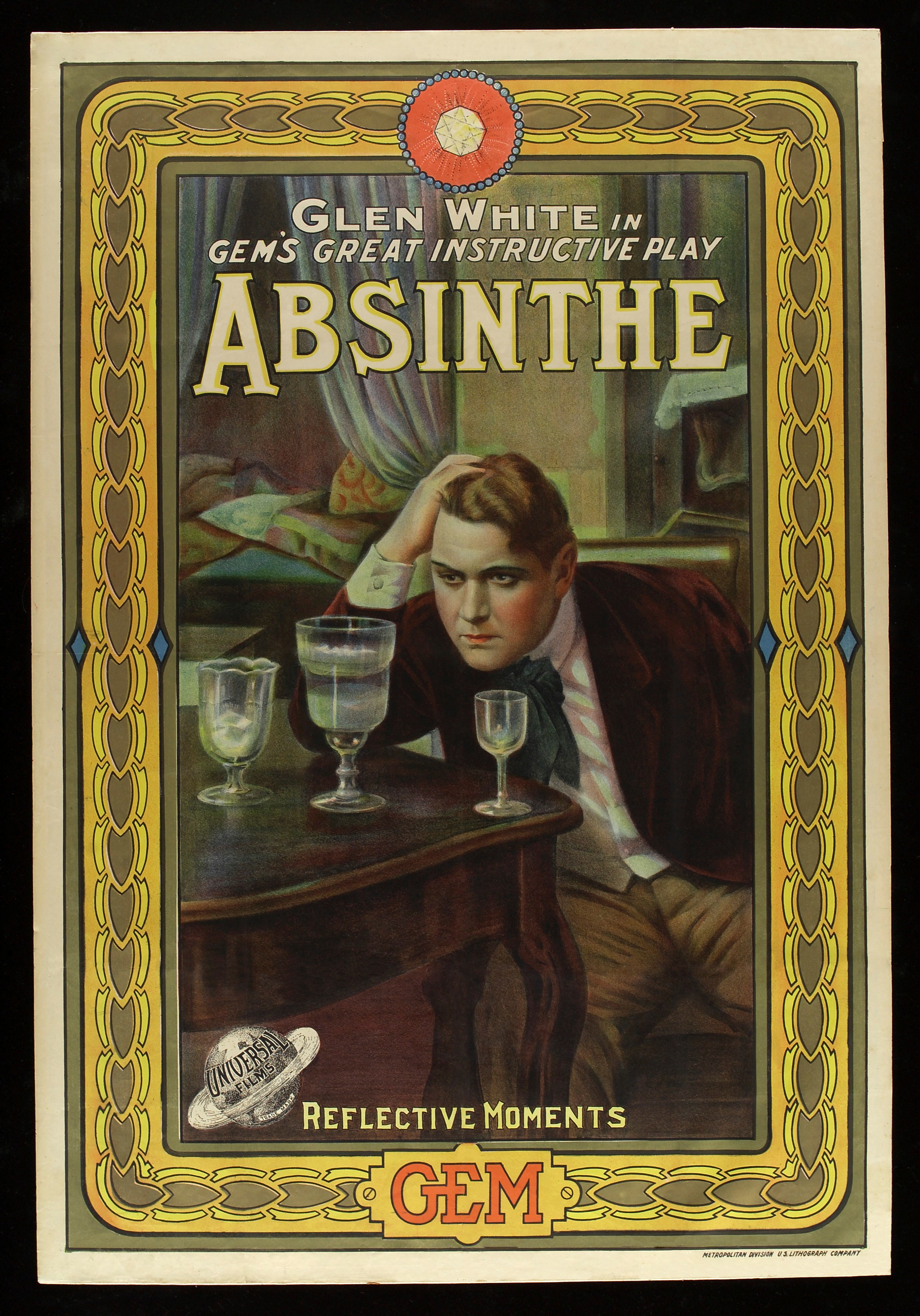 Poster for the American film Absinthe (1914) with Glen White.